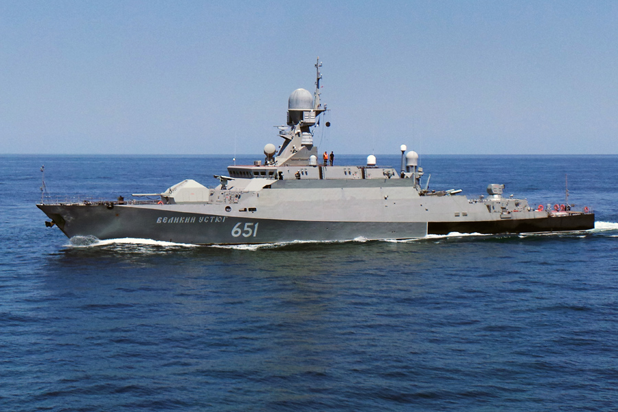 Velikiy Ustyug.